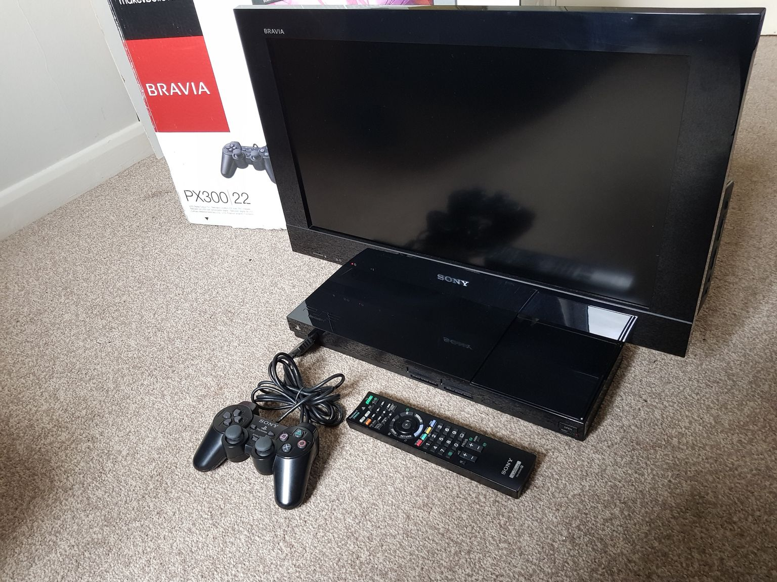 The Sony BRAVIA KDL22PX300 with controller, remote , the console and television